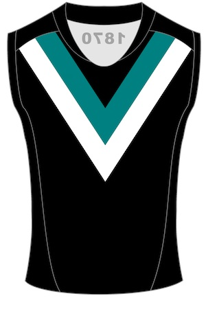 2013 - ISC Guernsey worn by the Port Adelaide Football Club in the AFL.